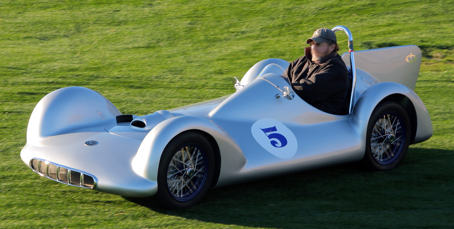 1956 Avia Mk3 Monoposto Streamliner at the 2011 Desert Classic, La Quinta, CA. This car has a rear mounted air-cooled v-twin, and was incorrectly identified as a BMW for a while - hence the incorrect badge.